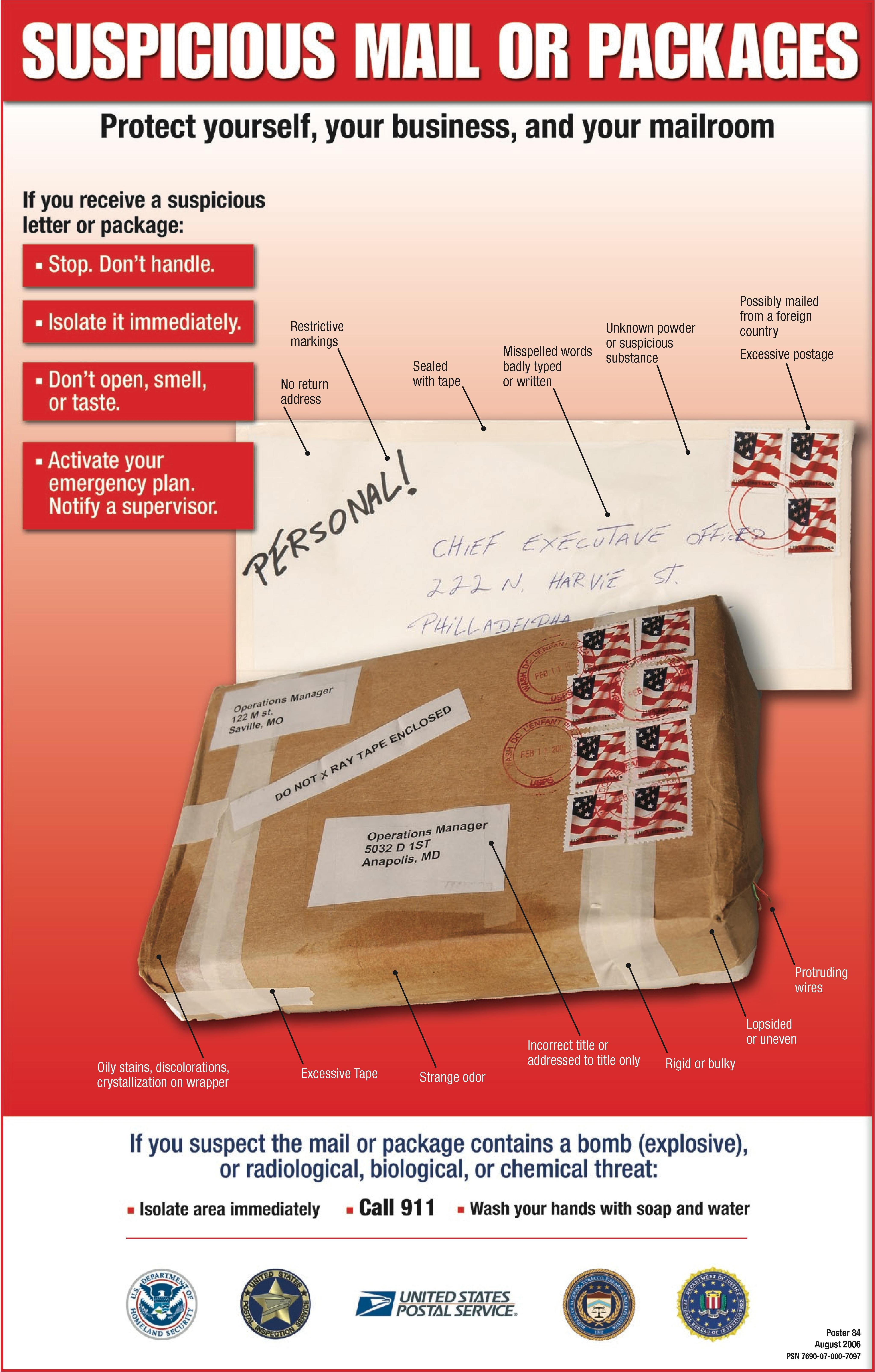 Public service announcement poster of USPIS. Government image, available for public use.